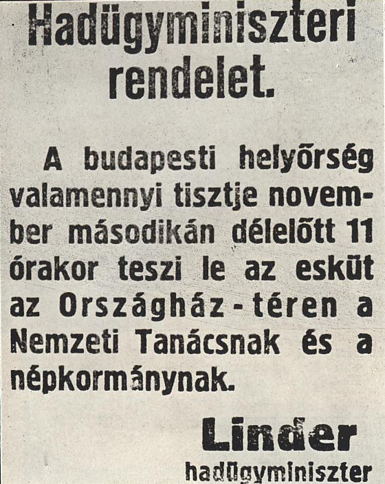 Minister of War Linder 1918 Notice swearing in of office officers on November 2, 1918 by 11 o'clock